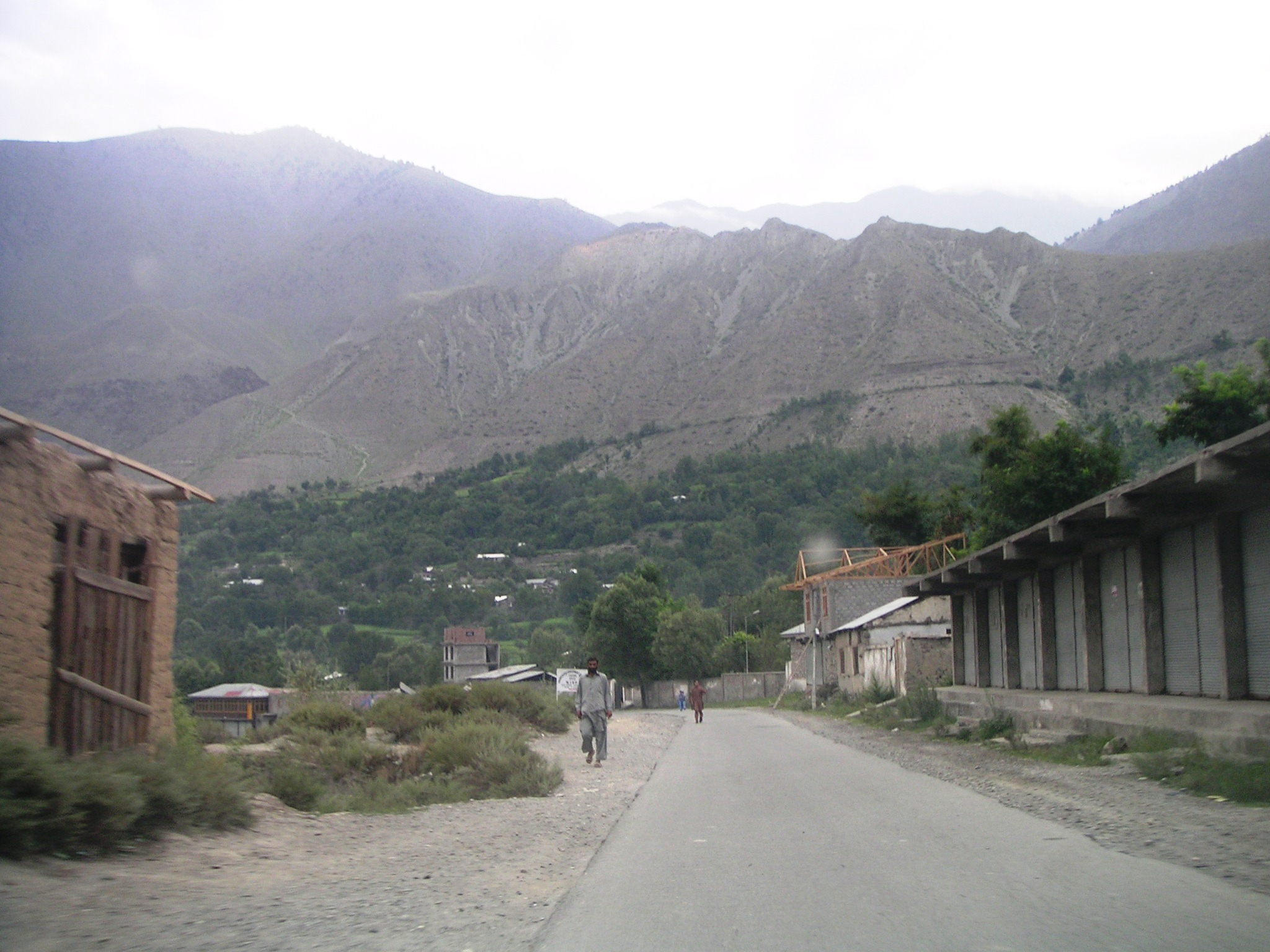 A beautiful view of Denin Chitral Pakistan photo by Rehmat Aziz Chitrali